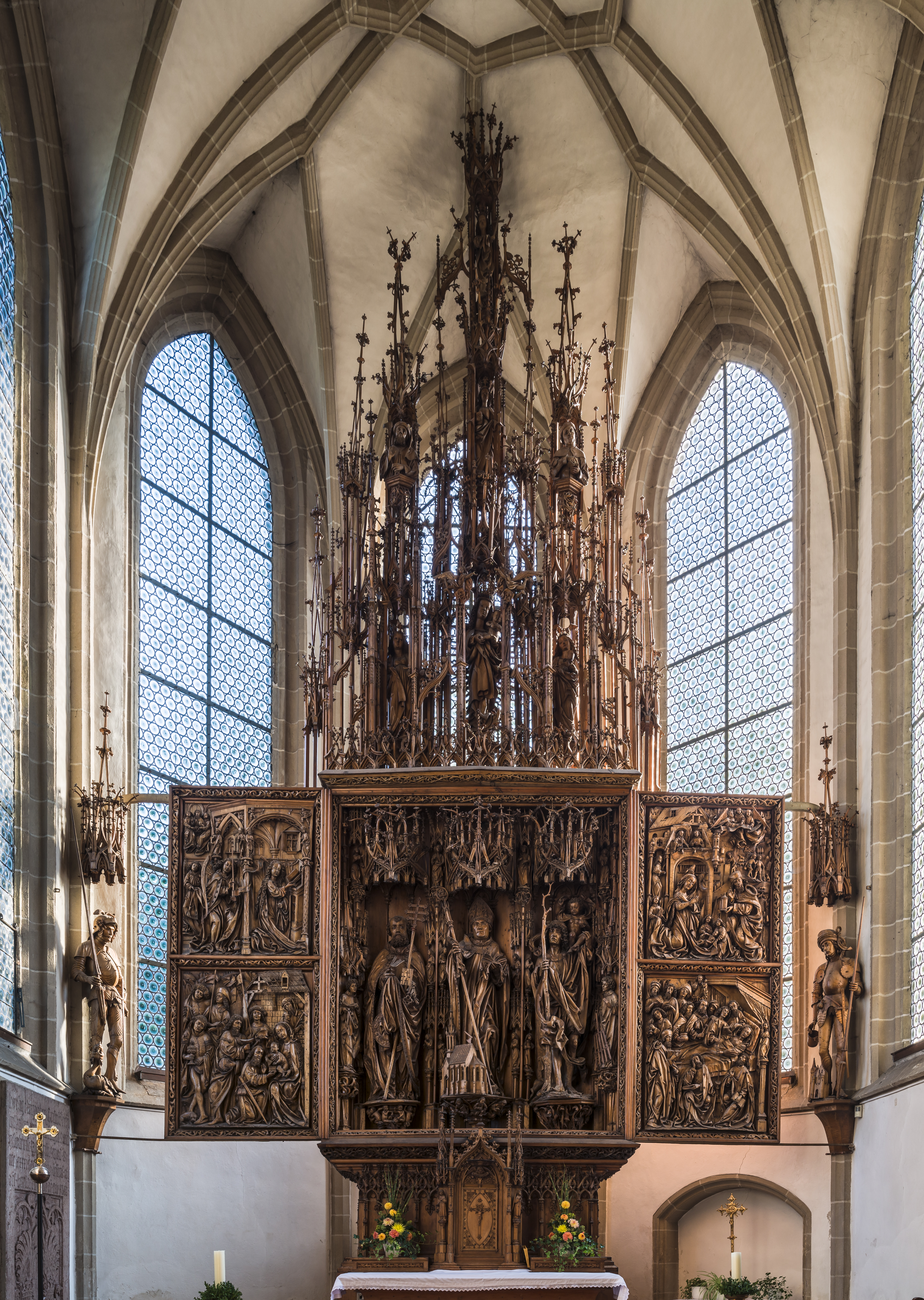 Winged altar at the parish- and pilgrimage church Kefermarkt, Upper Austria. Anonymous master (called Master of the Kefermarkt Altarpiece), around 1497.